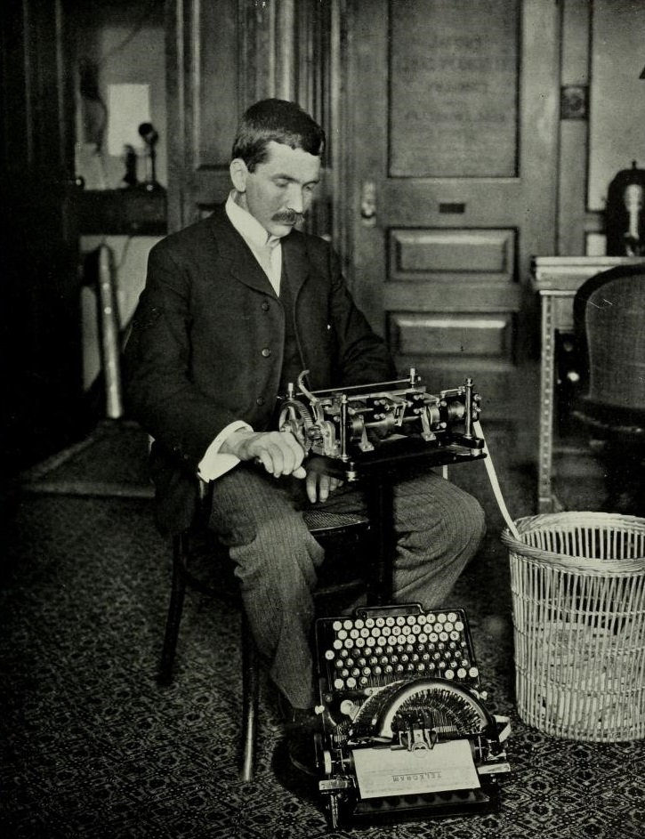 Picture of Donald Murray